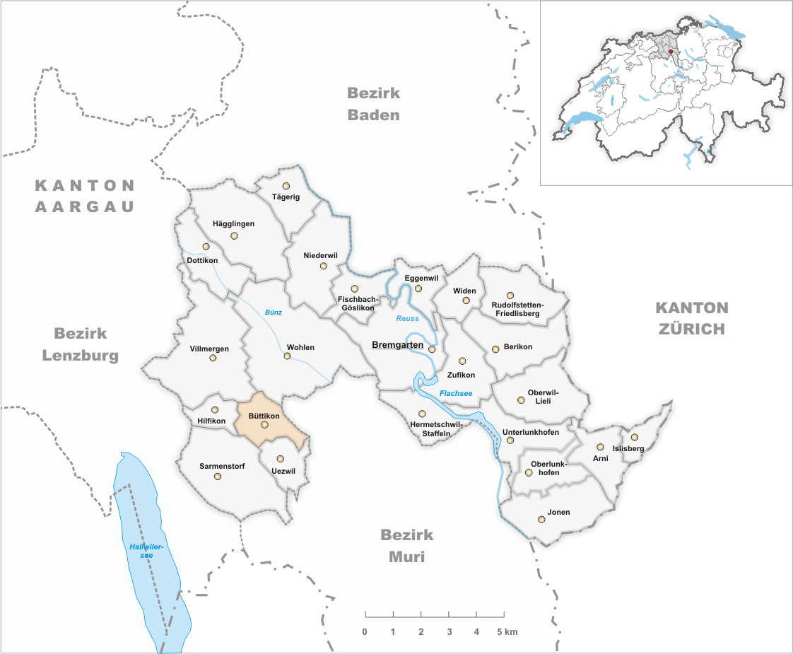 Municipality Büttikon